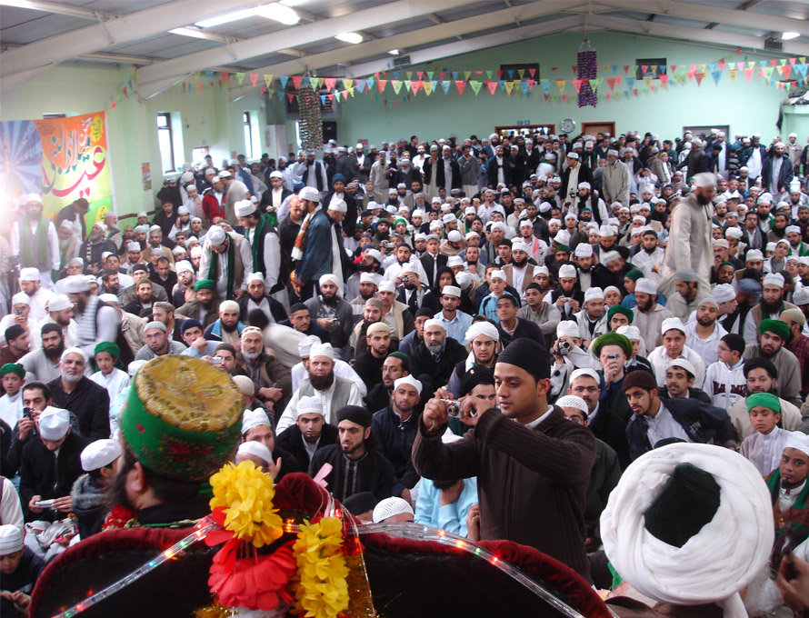 Milad Image